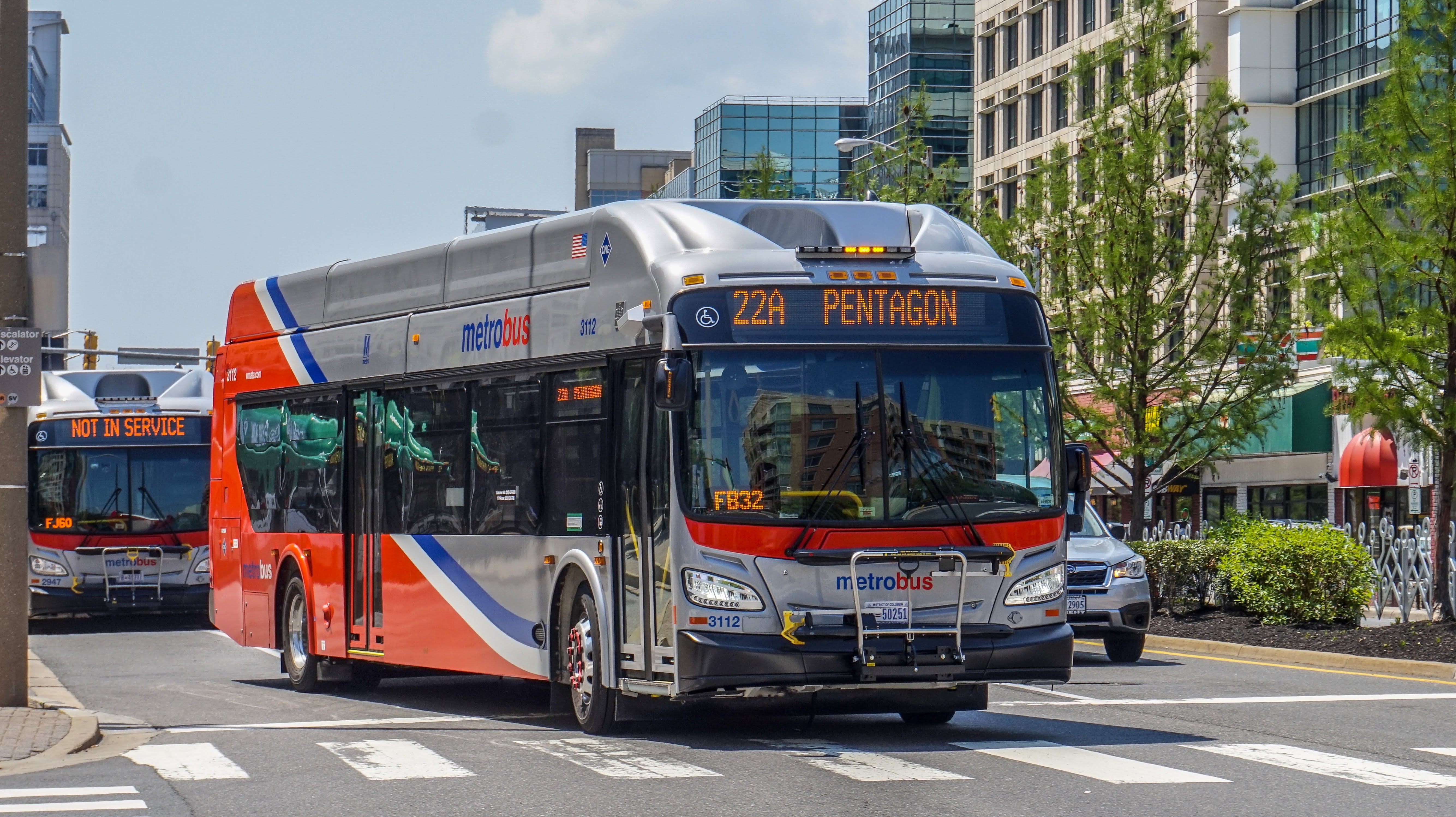 Here is WMATA Metrobus 2018 New Flyer Xcelsior XN40 #3112 at Ballston Station